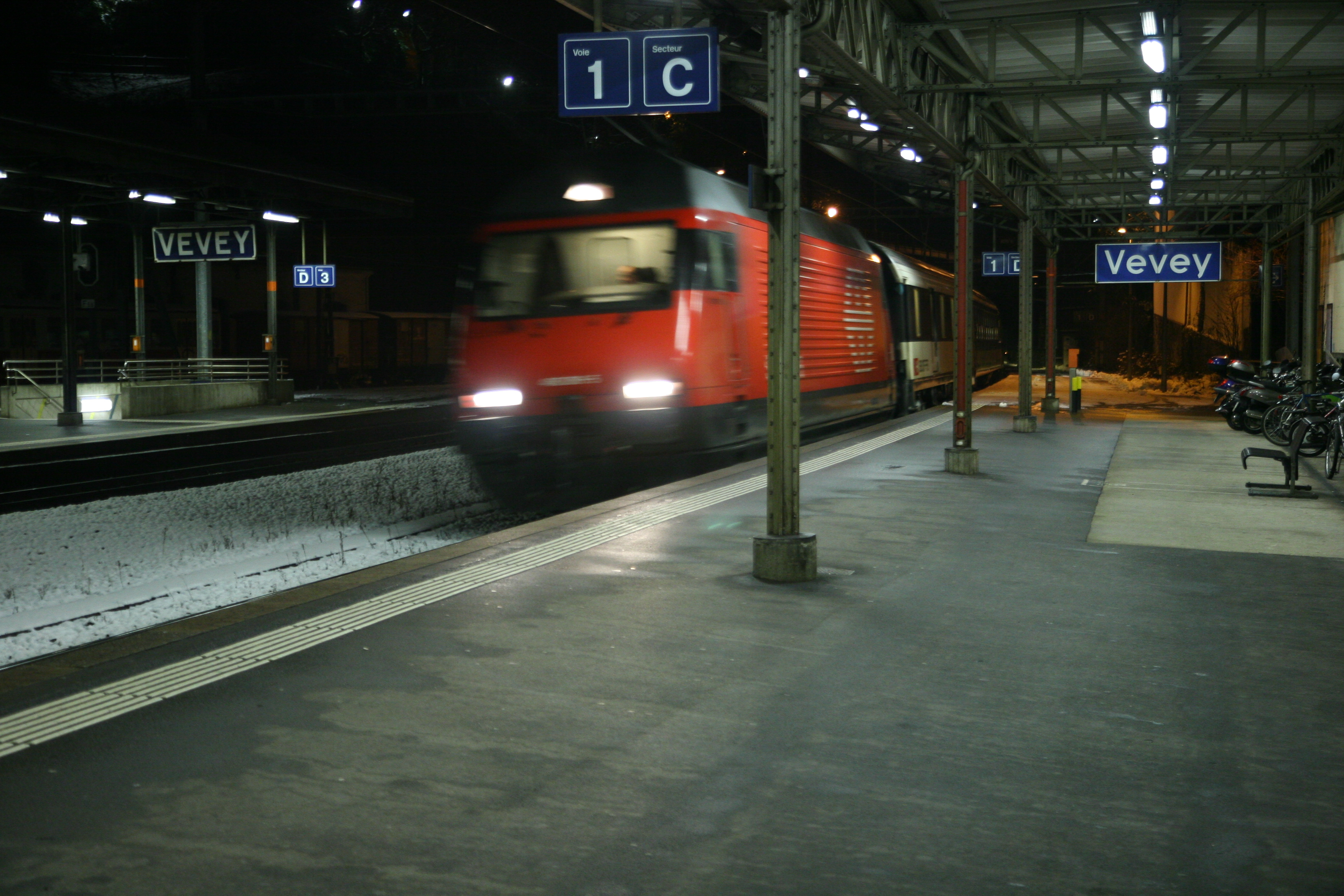 Train Station, Vevey, Switzerland